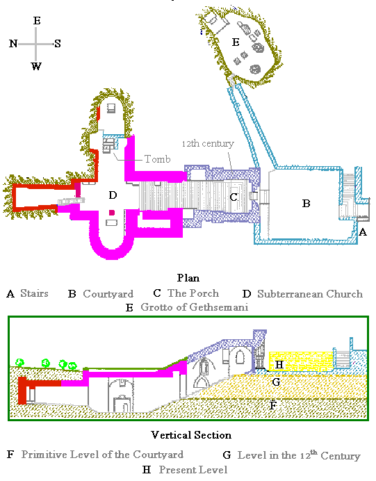 Plan of Mary's Tomb, in Jerusalem